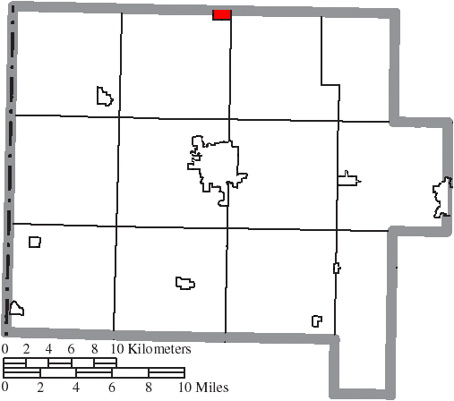 Map of the municipal and township boundaries of Van Wert County, Ohio, United States, as of the 2000 census, with the location of the village of Scott highlighted. Township borders are shown only in unincorporated areas in order to differentiate incorporated and unincorporated areas more clearly.